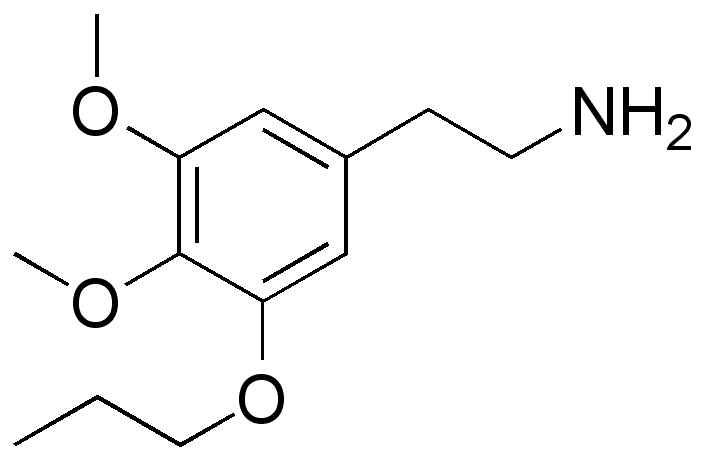 Chemical structure of Metaproscaline, drawn in ChemDraw by User:Mark PEA.